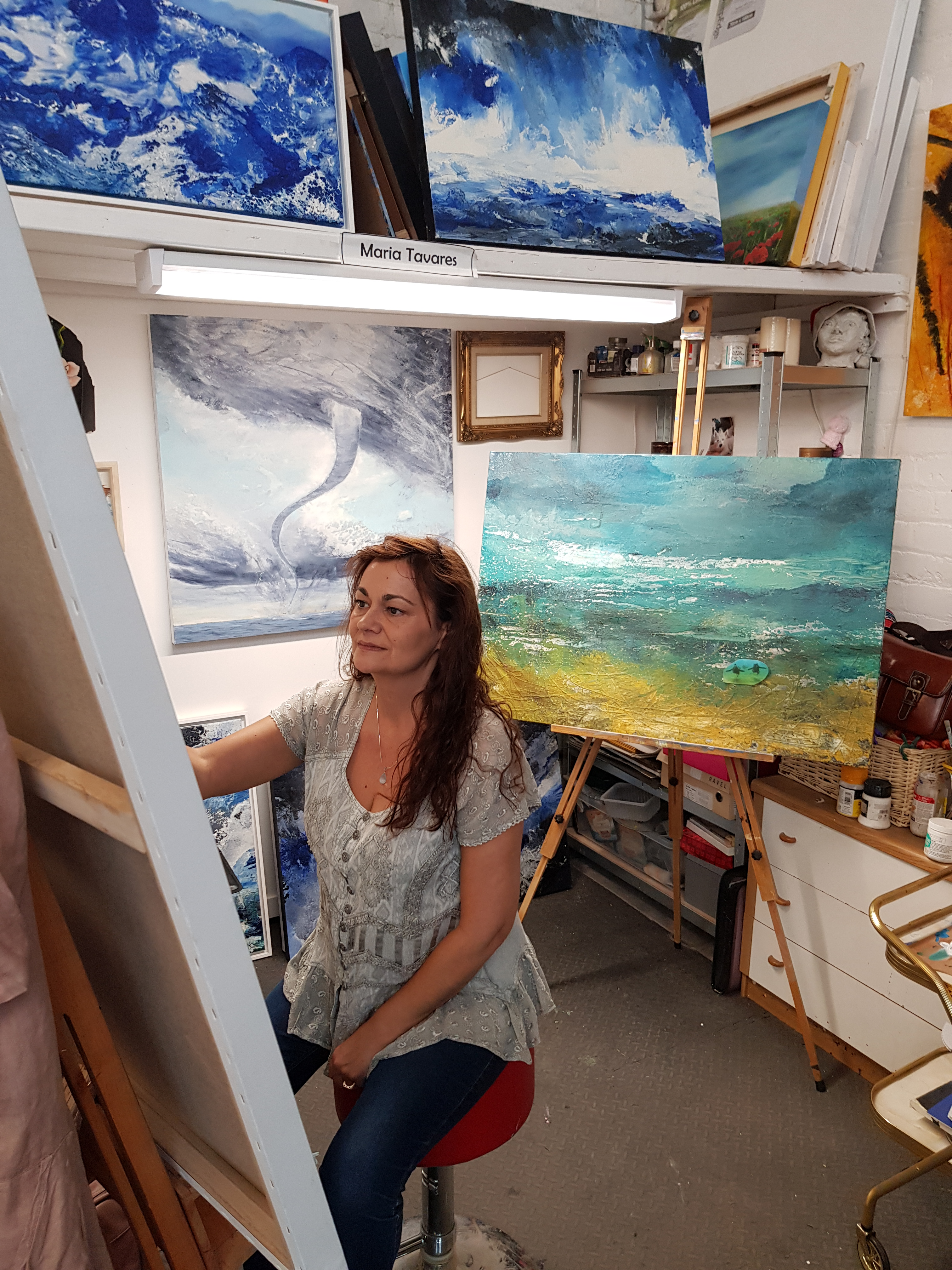 Miza Tavares working in her studio, in Liverpool (2018)